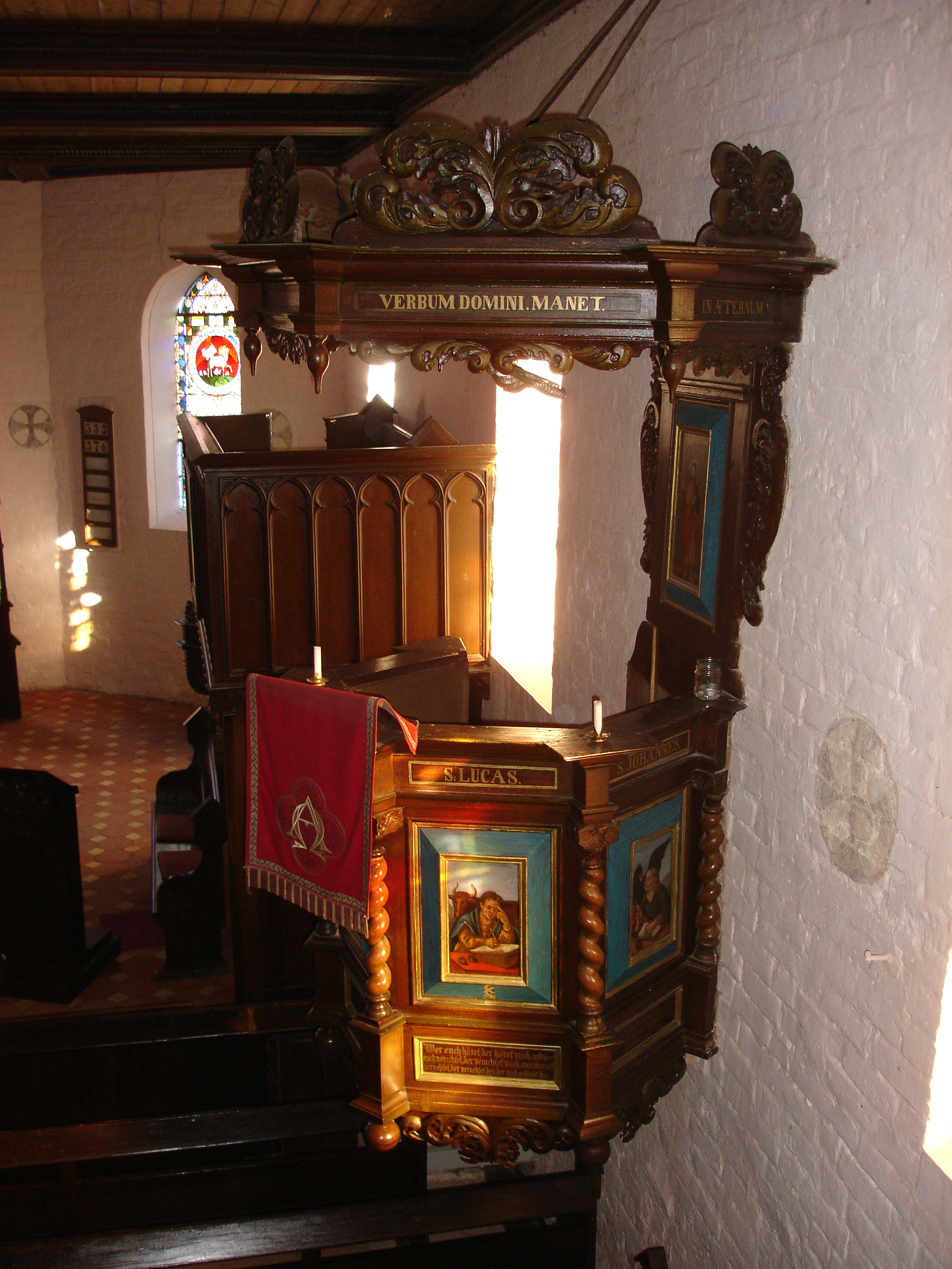 Church in Groß Brütz, district Nordwestmecklenburg, Mecklenburg-Vorpommern, Germany